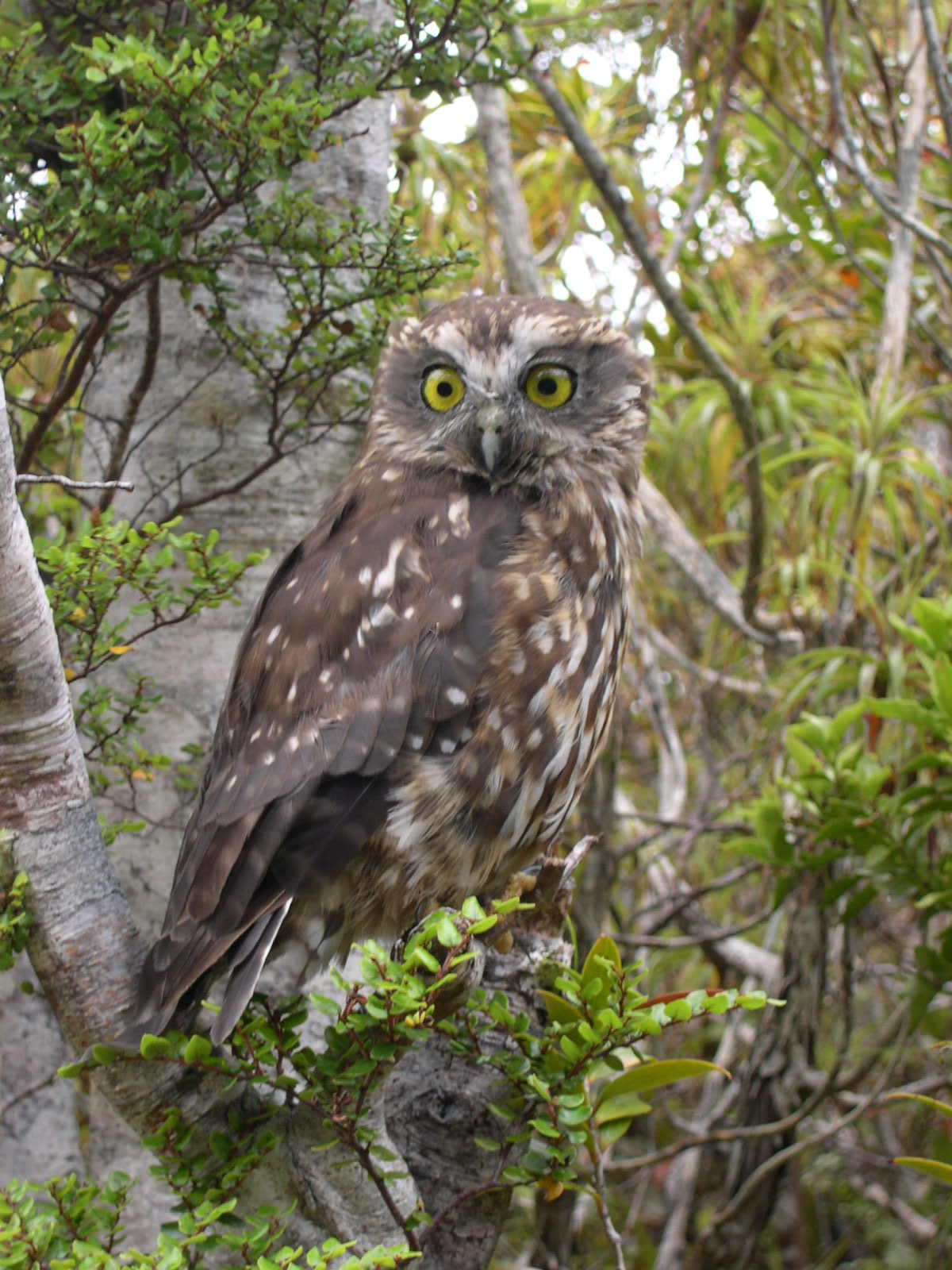 New Zealand ruru or owl (commonly called morepork) taken on the Heaphy Track, New Zealand, between Saxon and James Macky huts.